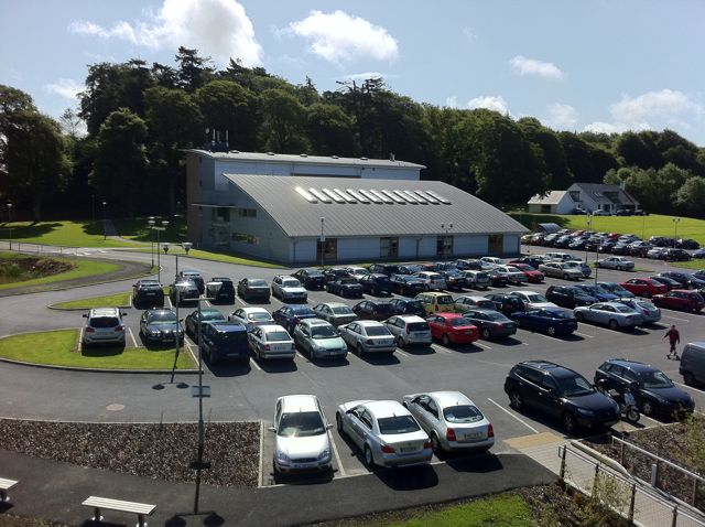 Photo of ArcLabs building in WIT's West Campus Carriganore, Co Waterford